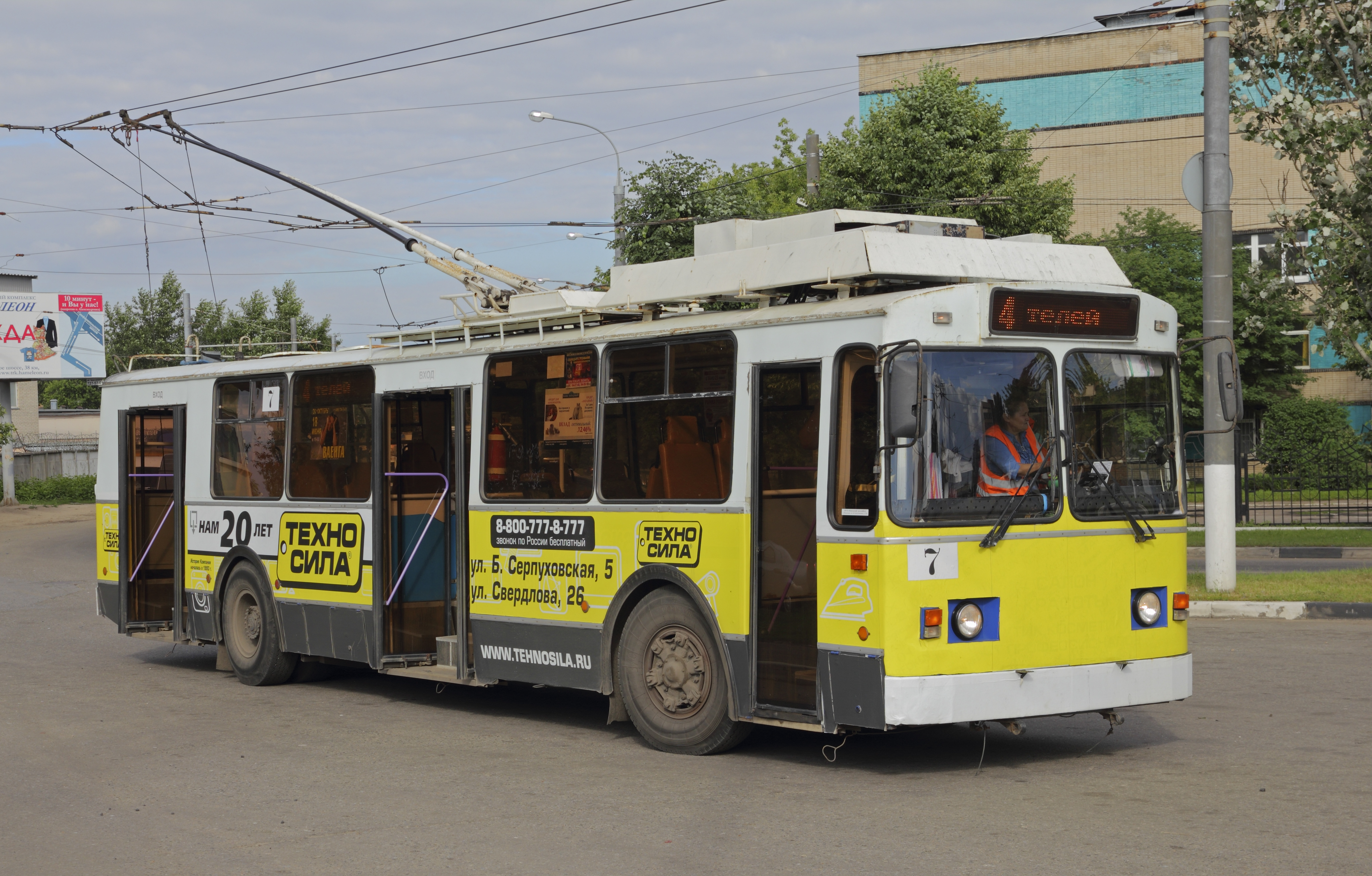 Trolleybus ZiU-682 in Podolsk, Moscow Oblast